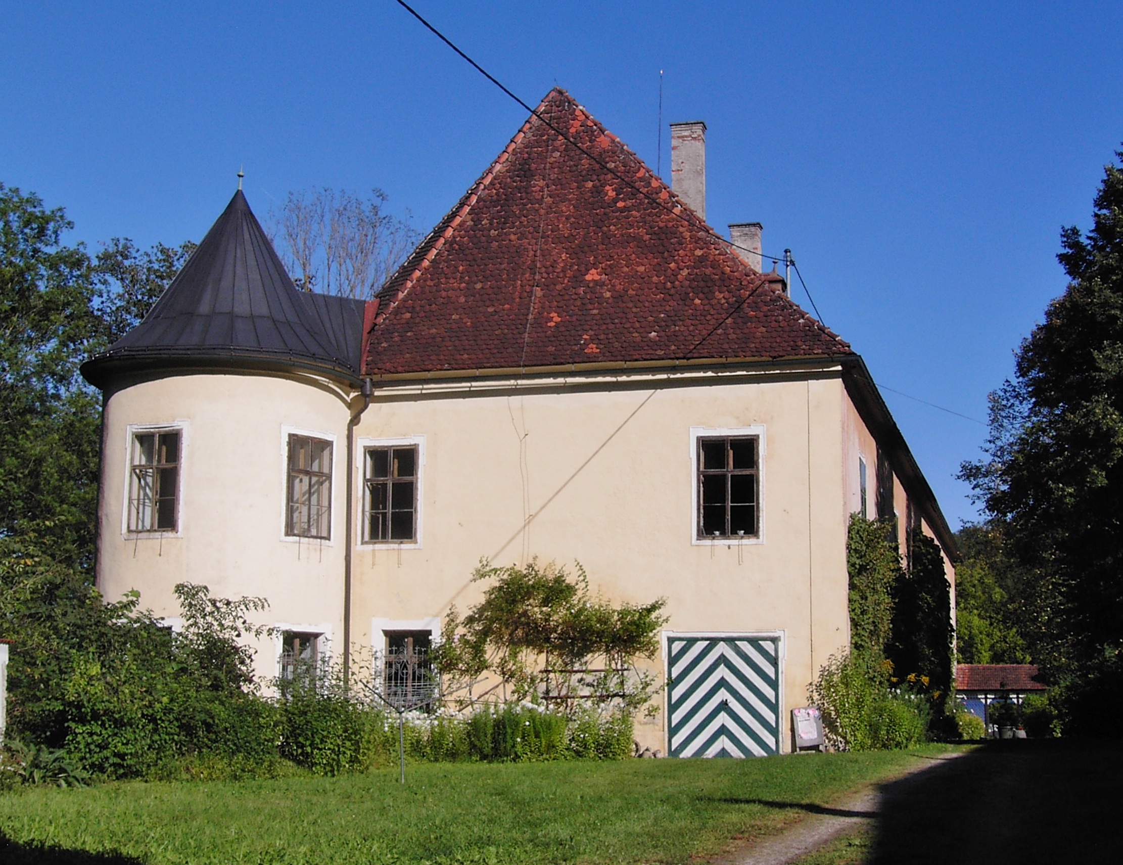 Schloss Rosenegg, Rosenegg in Garsten near Steyr, Austria